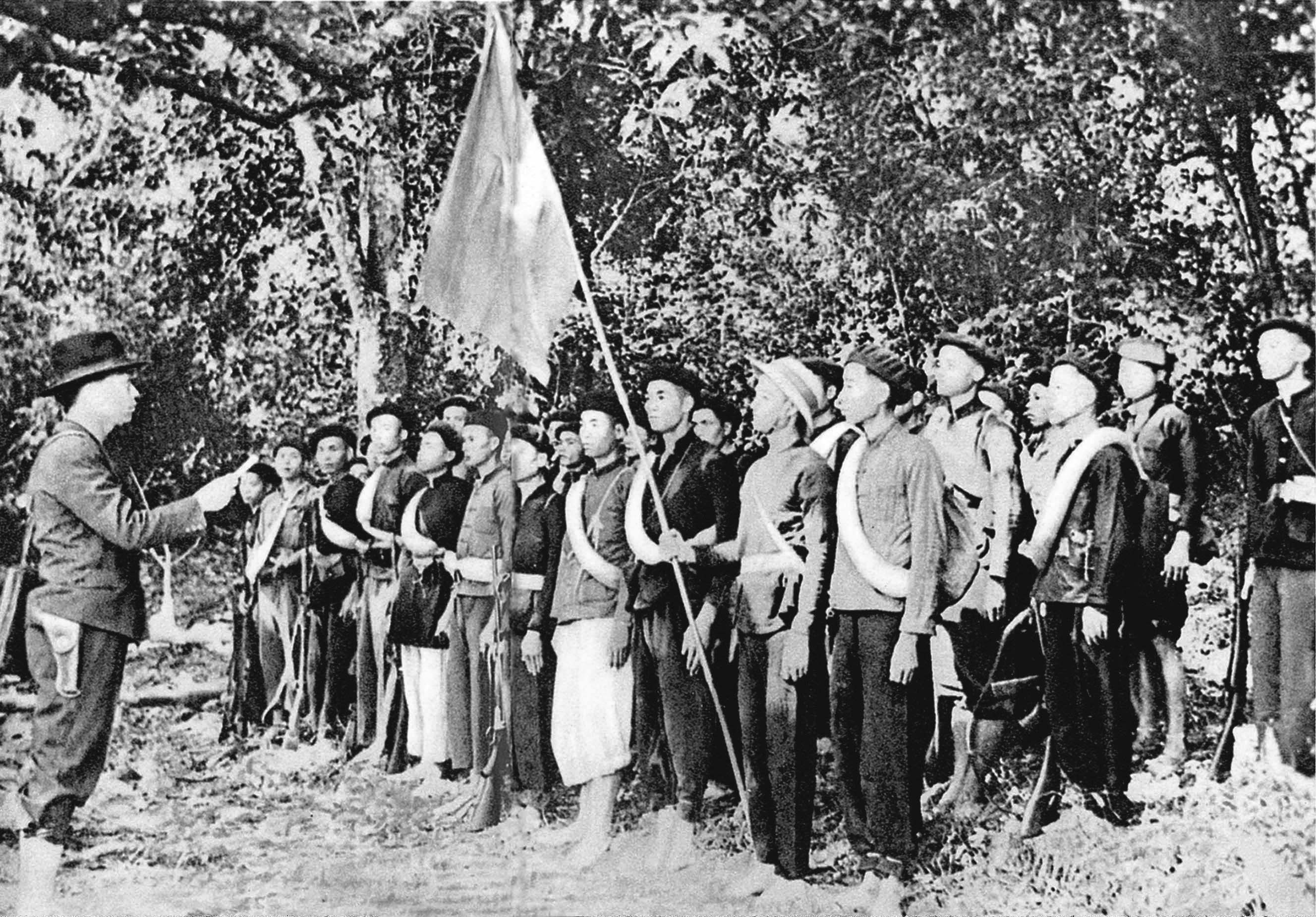 Vo Nguyen Giap (left), together with Vietminh forces in the forests near Kao Bak Lang, 1944